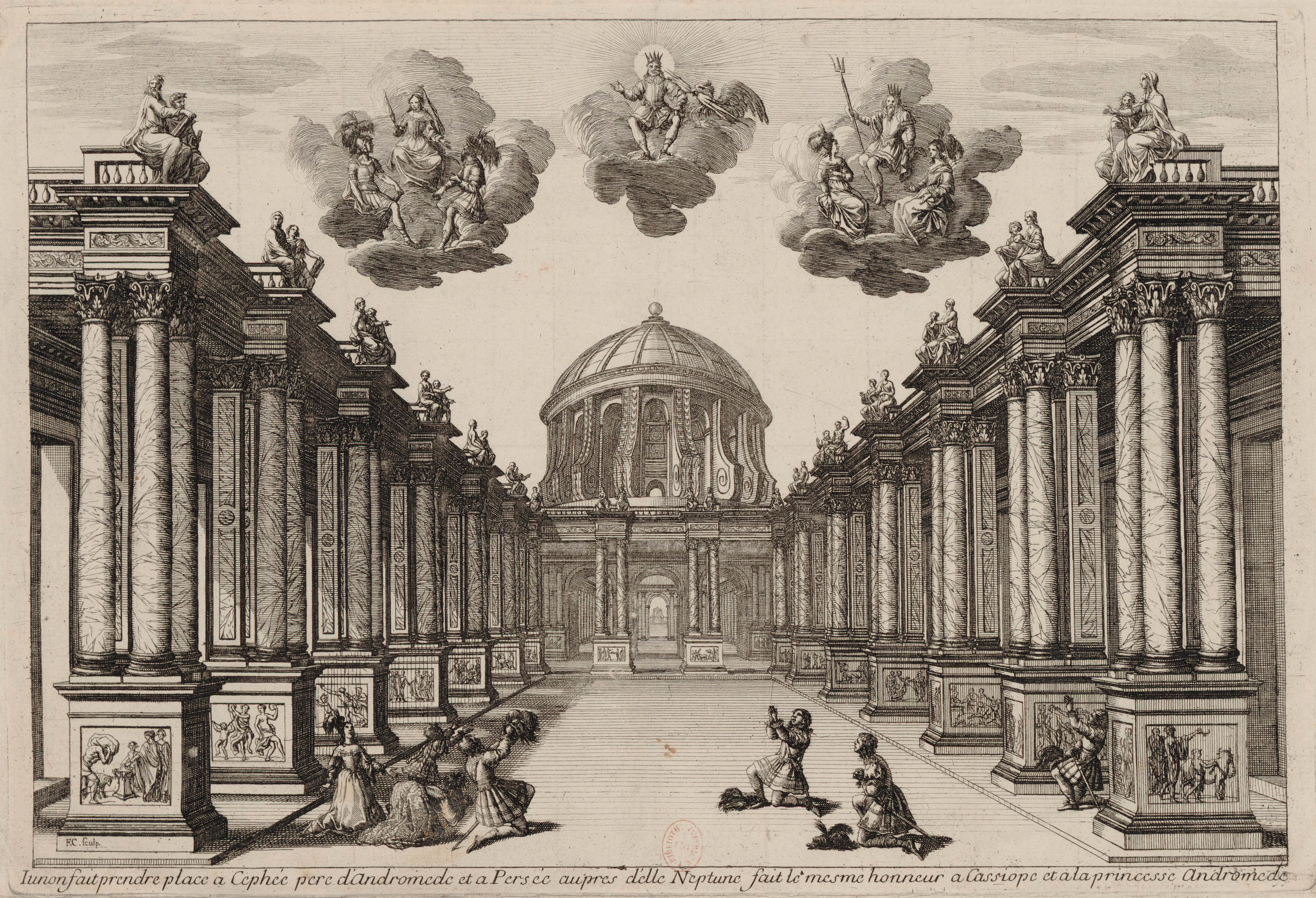 Set design for Act 5 of Pierre Corneille's Andromède as first performed on 1 February 1650 by the Troupe Royale at the Petit-Bourbon in Paris. Ref: Deierkauf-Holsboer, S. Wilma (1960). L'Histoire de la mise en scène dans le théâtre français à Paris de 1600 à 1673, plate XX. Paris: A. Nizet. OCLC 274849